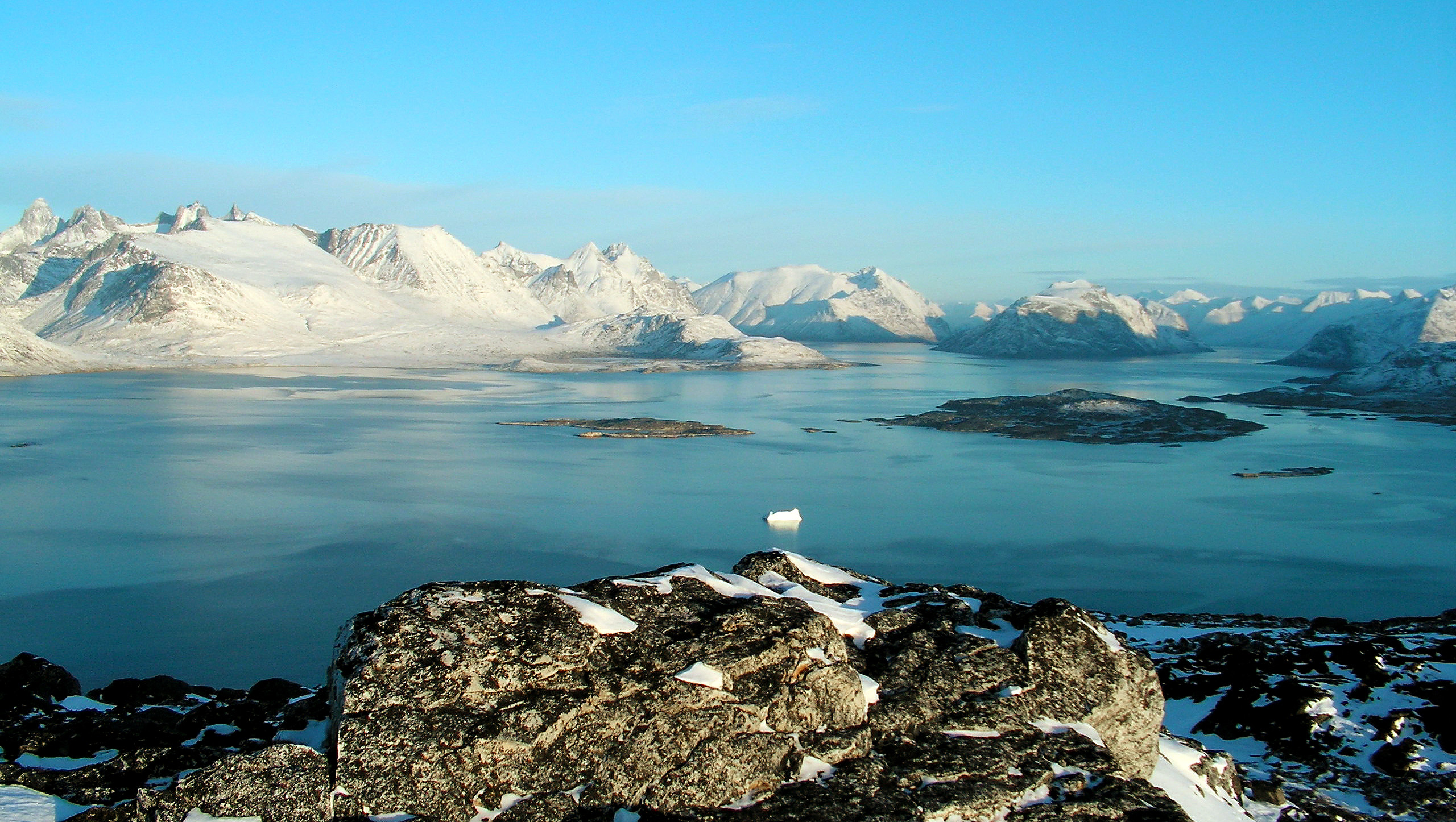 Scenery from Ravnefjeldet, Nanortalik (Southernmost part of Greenland) on a clear December morning. The jagged mountains in background (left) are the 1300m high 'Savtakkerne'. Photo taken December 2005 by Jens Buurgaard Nielsen.